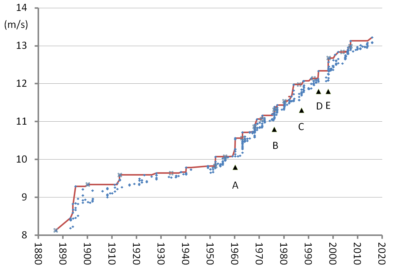 Development of skating speed over 10.000 m. The speed of top skaters over 10.000 meters is displayed over the years. The red line is de world record speed. The blue dots are various best times per season. A - Introduction of the artificial ice rink B - Breakthrough of the aerodynamic suit C - Introduction of the indoor ice rink D - Introduction of the clap skate E - Introduction of the aerodynamic strips Data source: Evert Stenlund